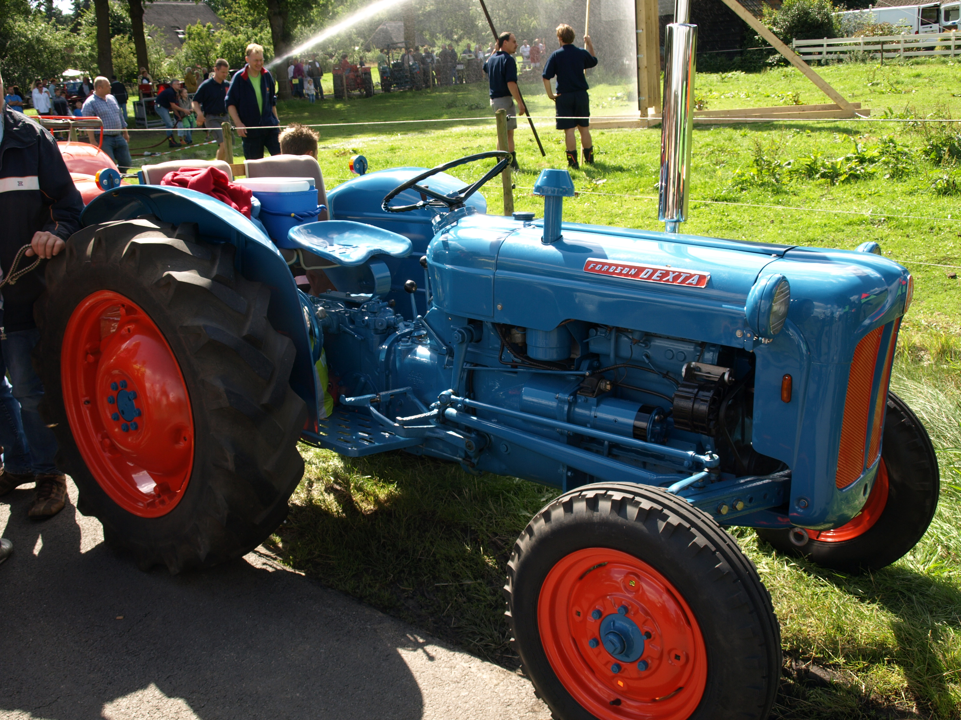 Fordson Dexta tractor, photographed at a show in the Dutch province Drenthe.